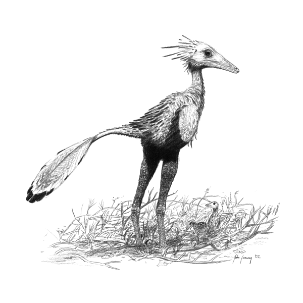 A drawing of the theropod dinosaur Sinornithoides youngi